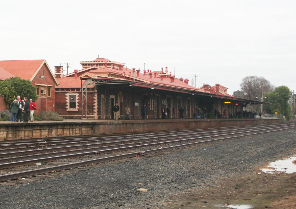 Seymour railway station, Victoria view from the main street